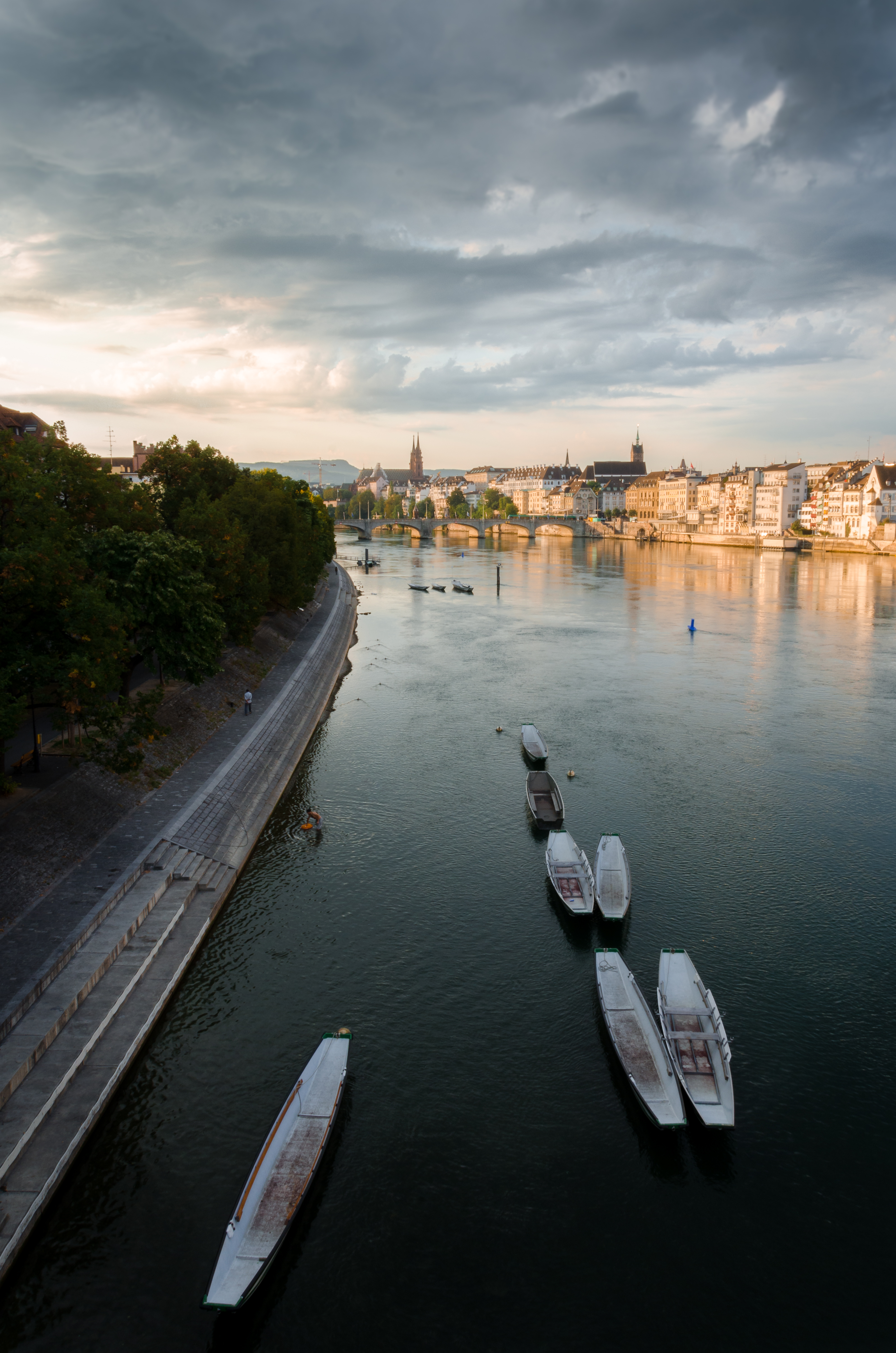 View from Johanniterbrücke.